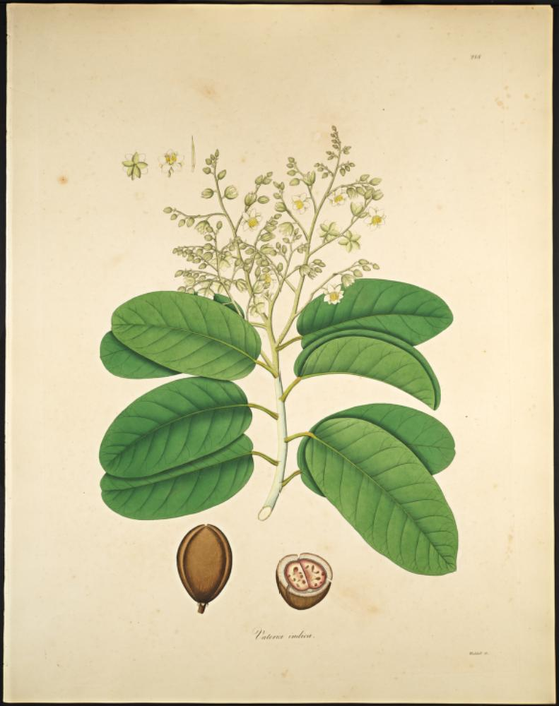 Illustration of Vateria indica